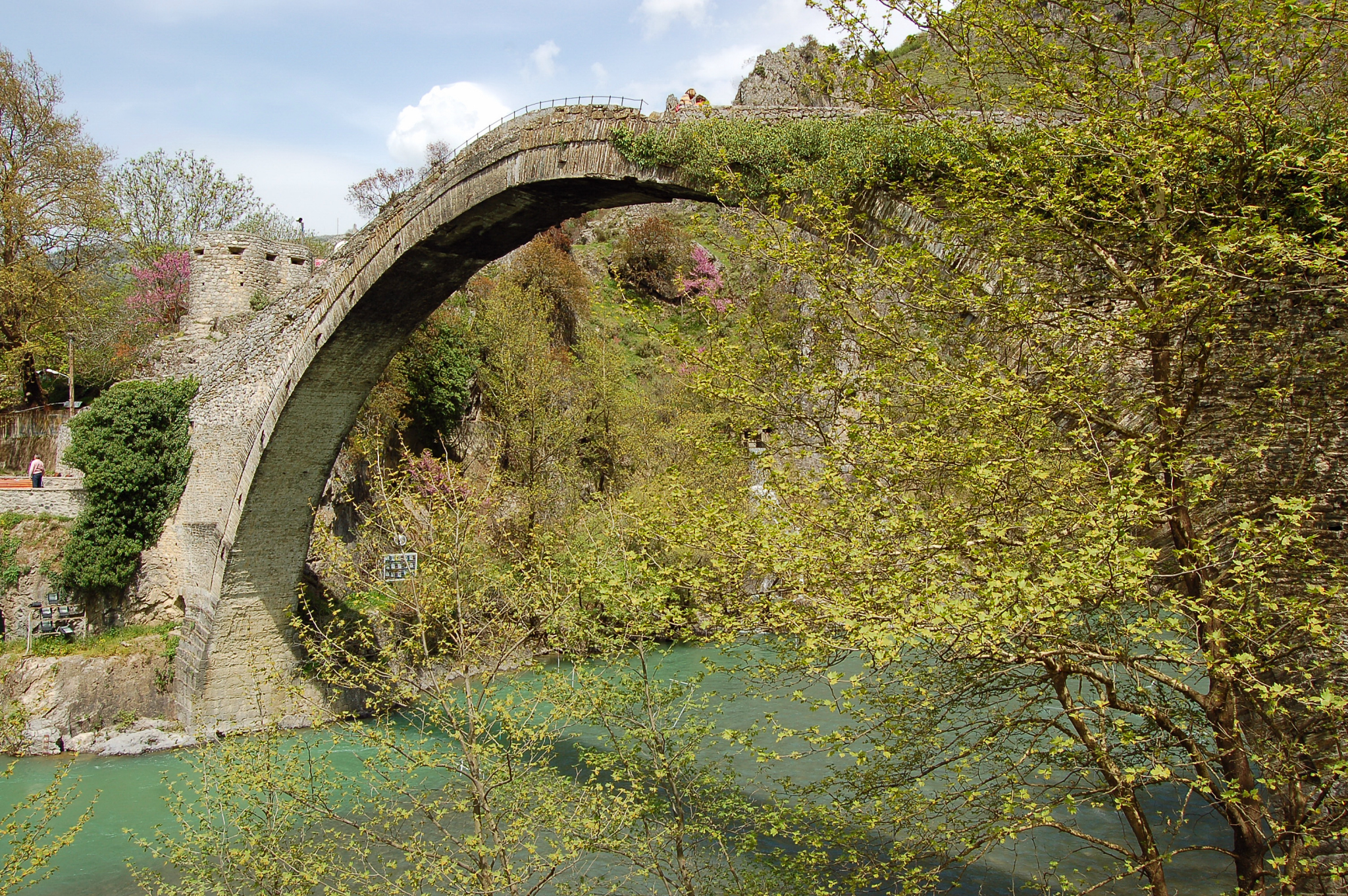 Bridge, Konitsa, Greece